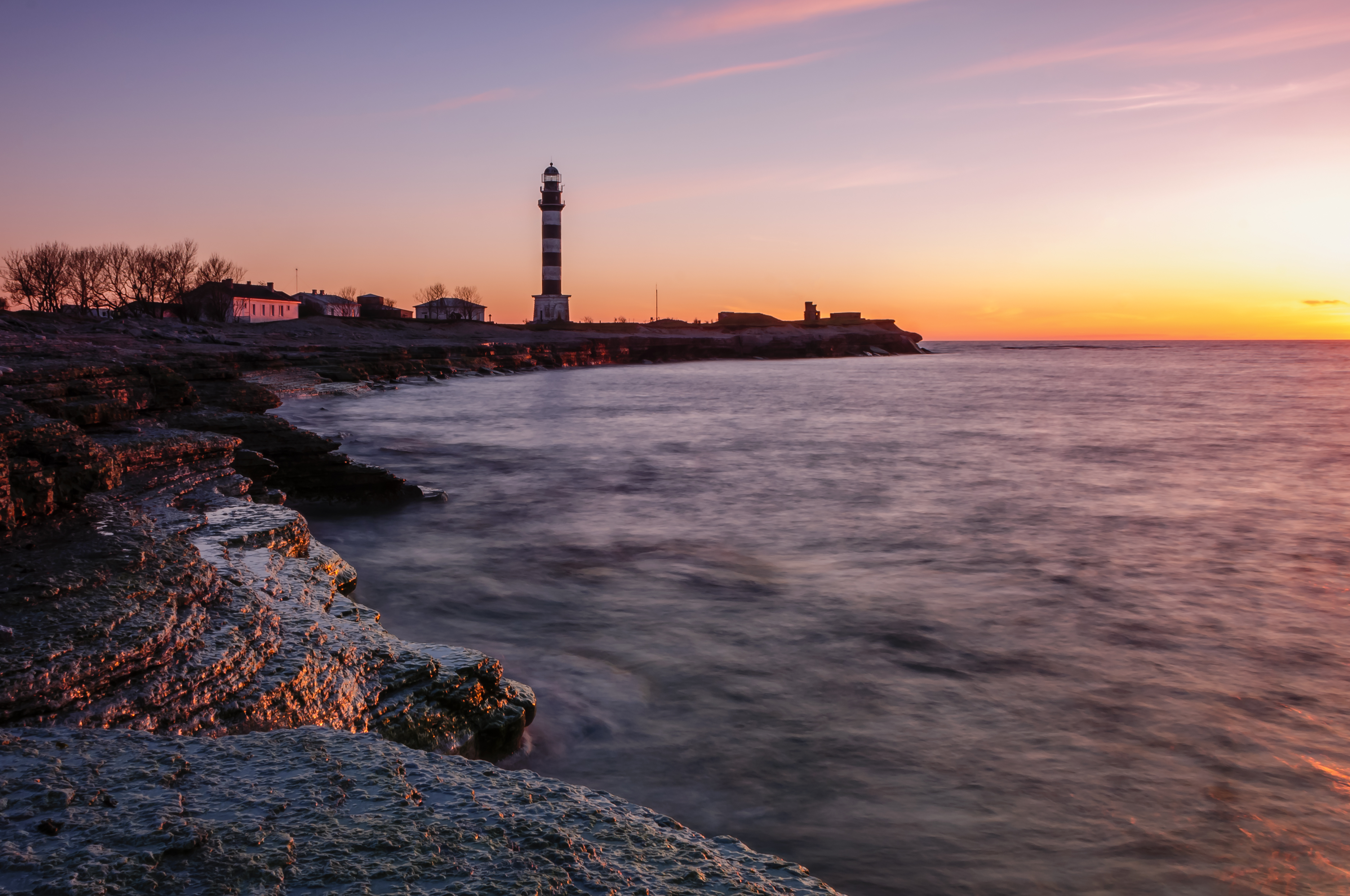 Northern coast of island Osmussaar during sunset.